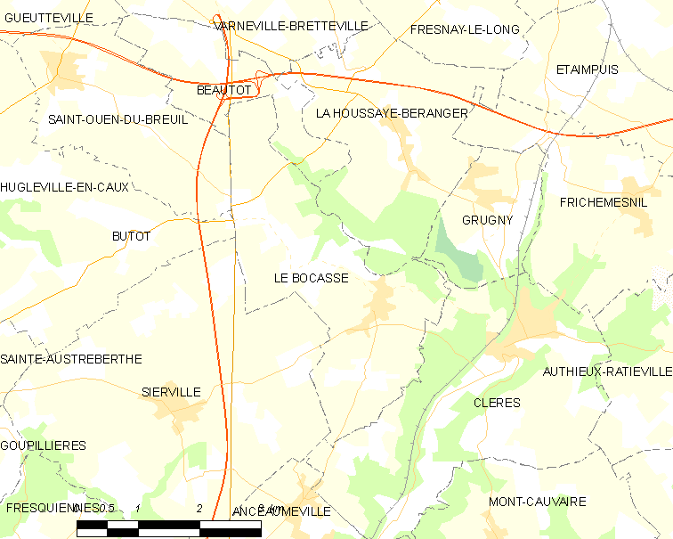 Map of French municipality Le Bocasse